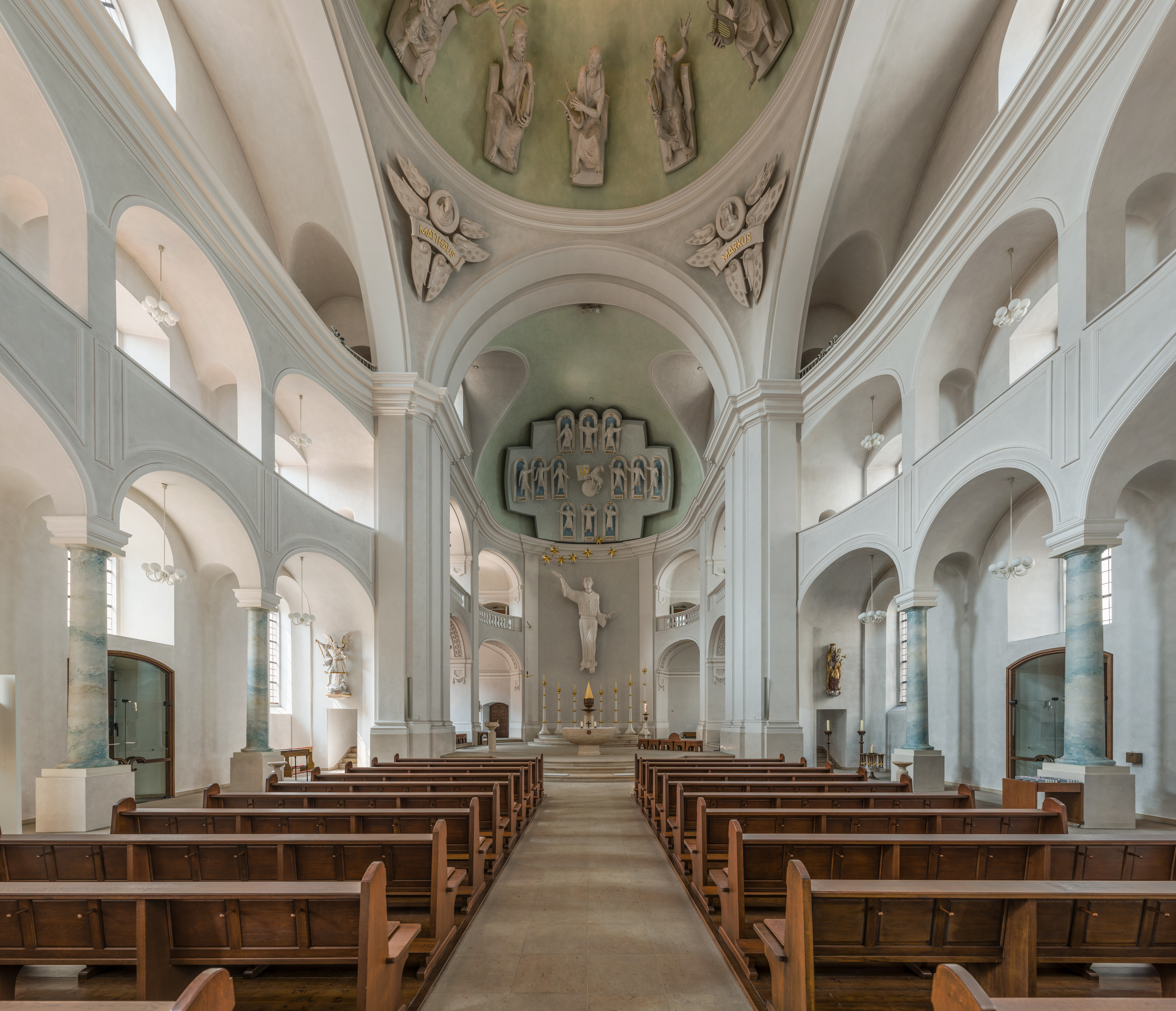 The nave of St. Michael, WürzburgThis is a photograph of an architectural monument.